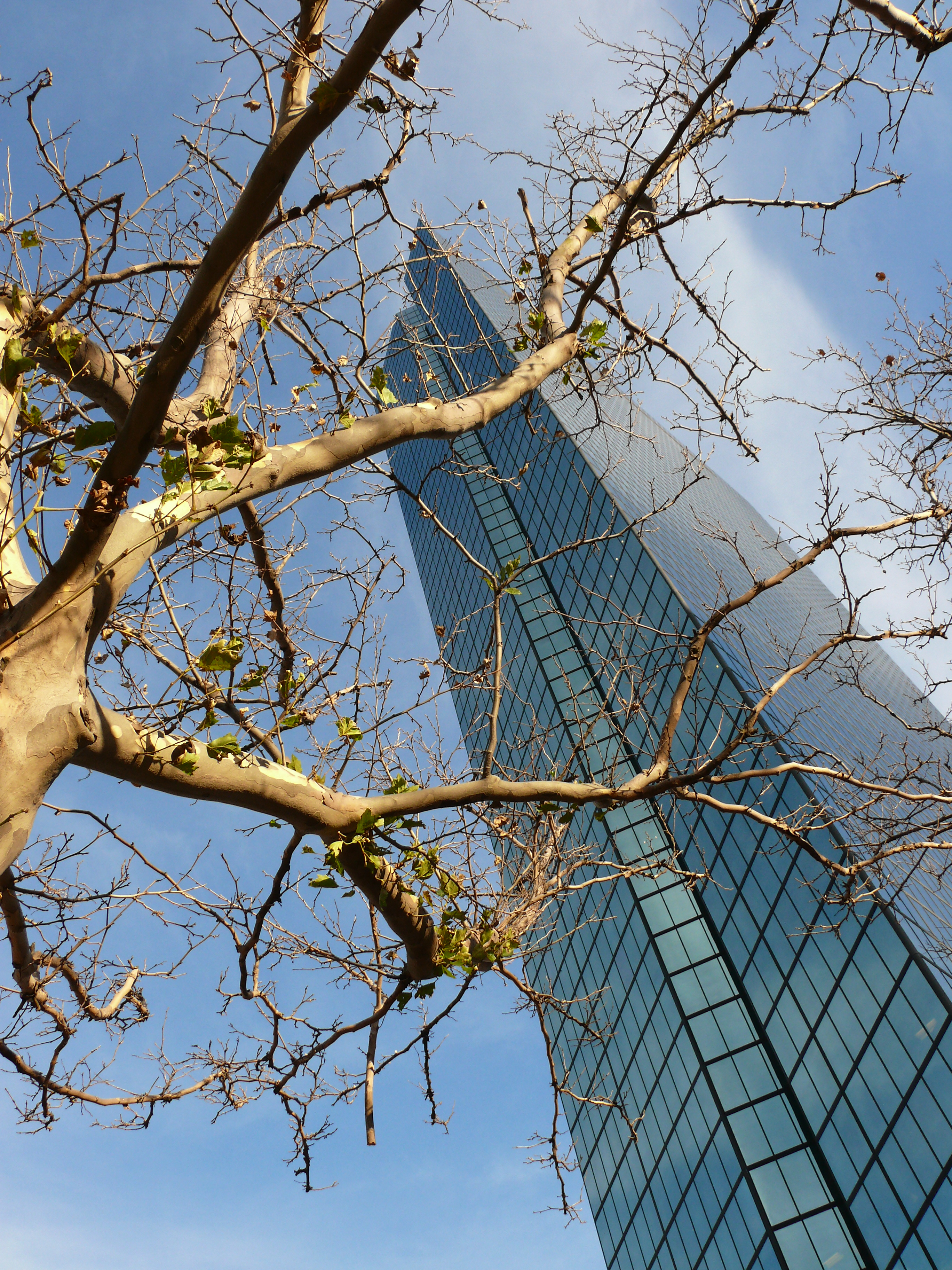 John Hancock Tower in Boston, USA